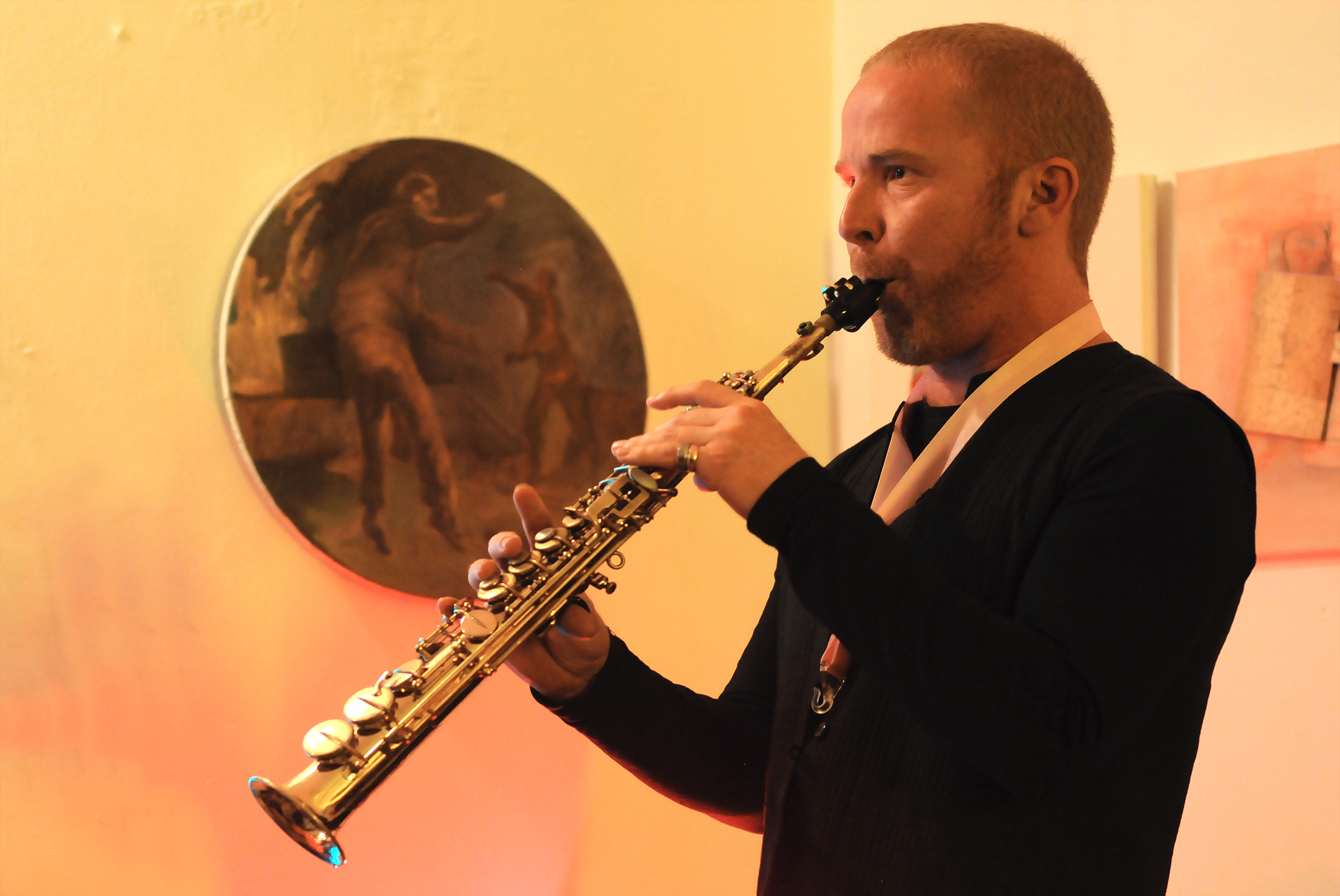 Hayden Chisholm live in Istanbul